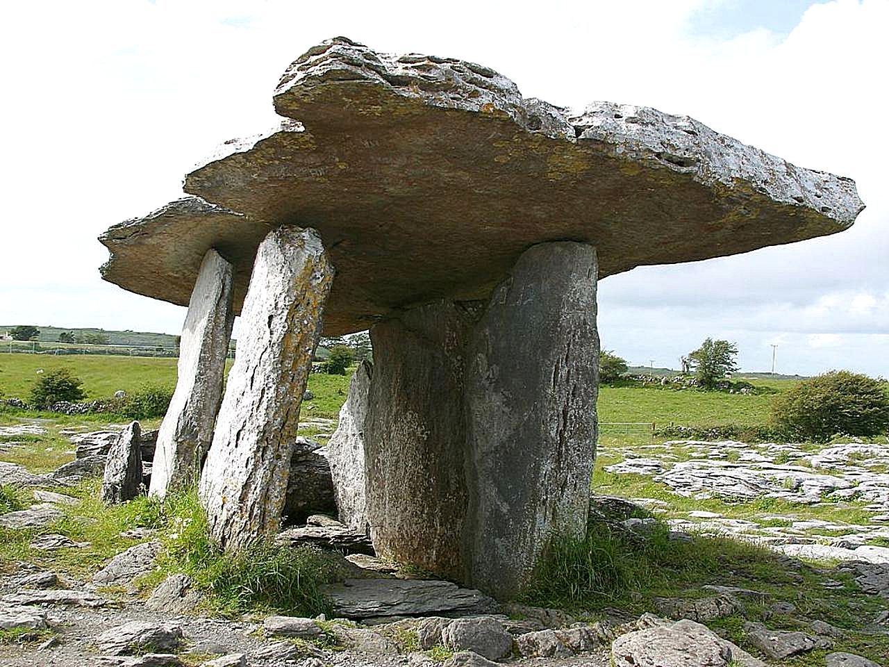 Image title: Paulnabrone rocks slabs Image from Public domain images website